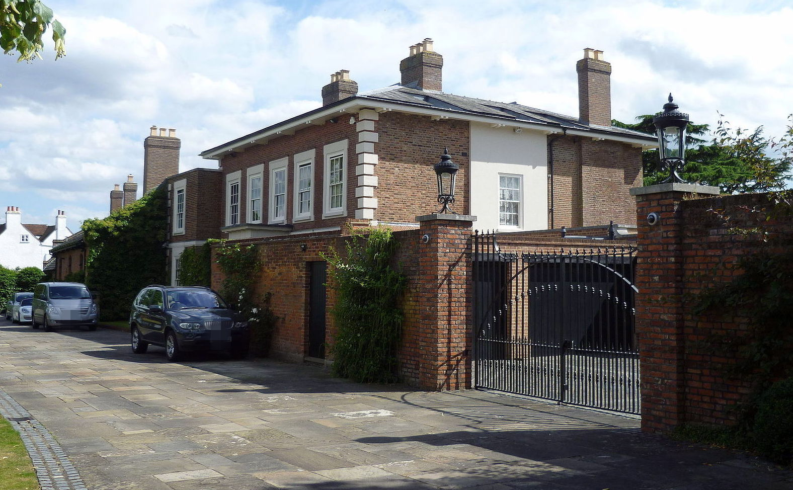 Gladsmuir, Hadley Common, north London